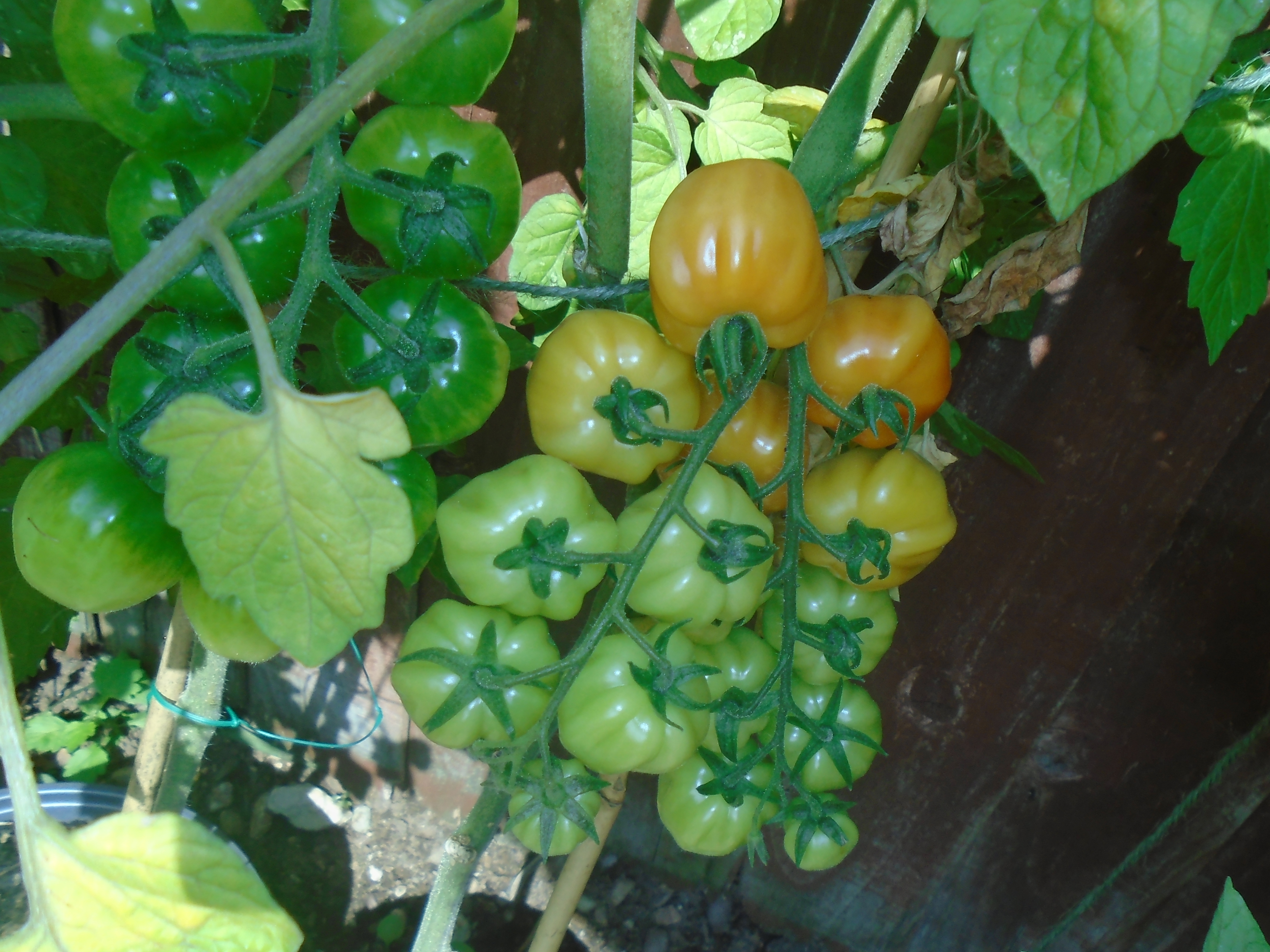 these are my tomatos i grew summer 2018